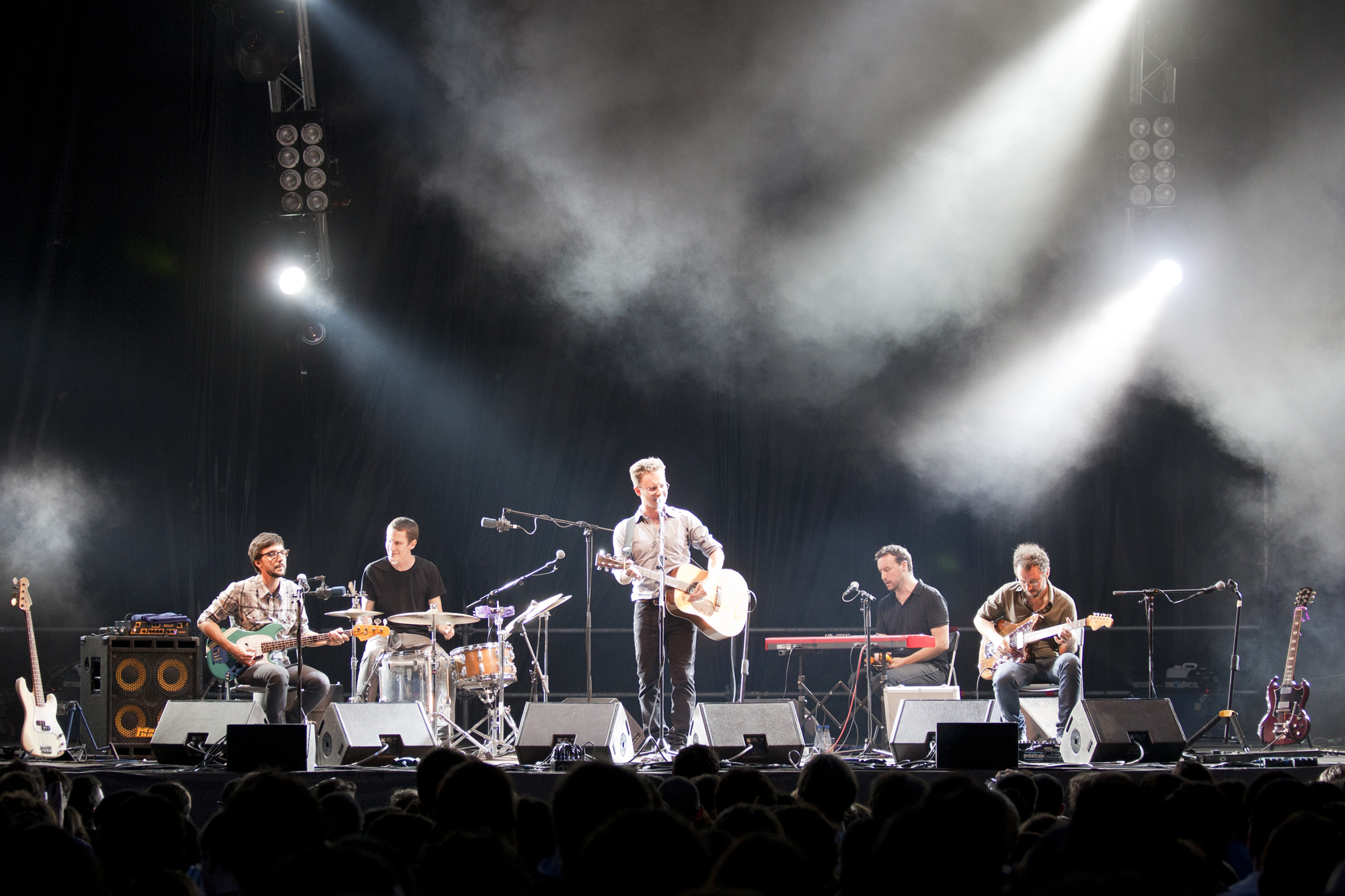 Mishima in concert in Barcelona, Spain.